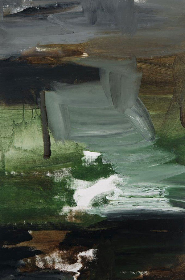 Sergei Sviatchenko. From the series Coronation, 2015